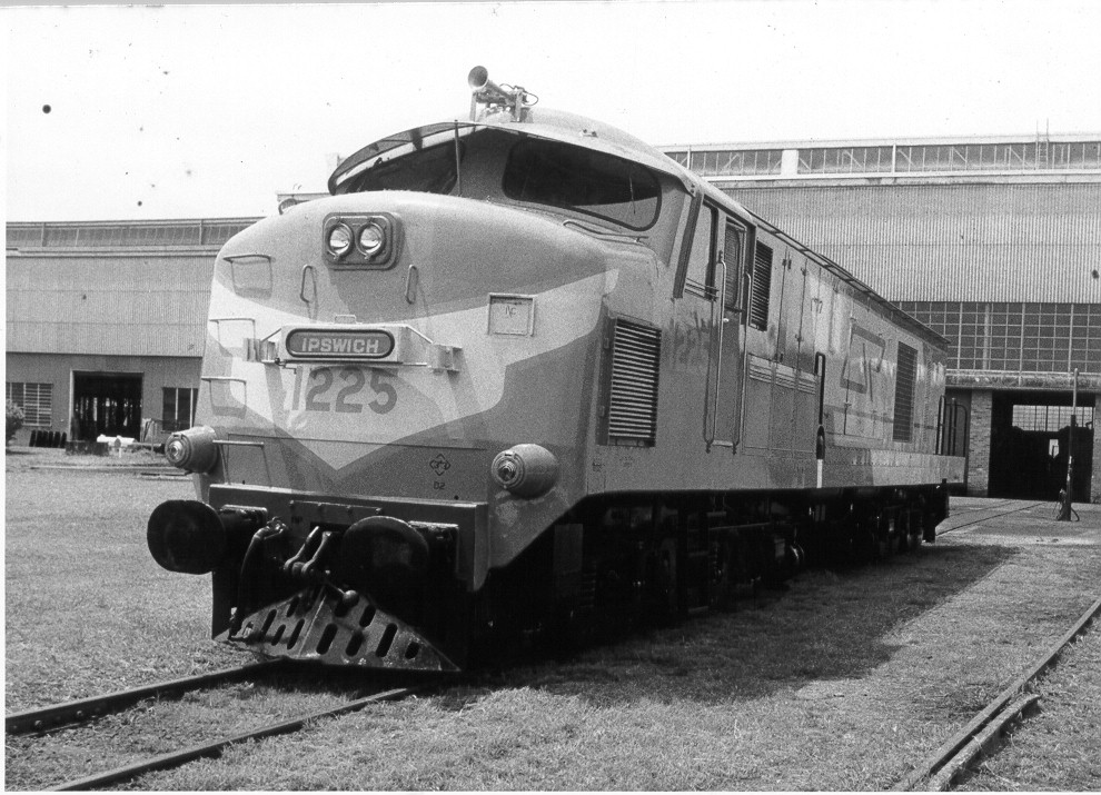 Recently Rebuilt in 1983 Queensland railway English Electric locomotive 1208 rebuilt at Redbank Workshops is recommissioning as 1225